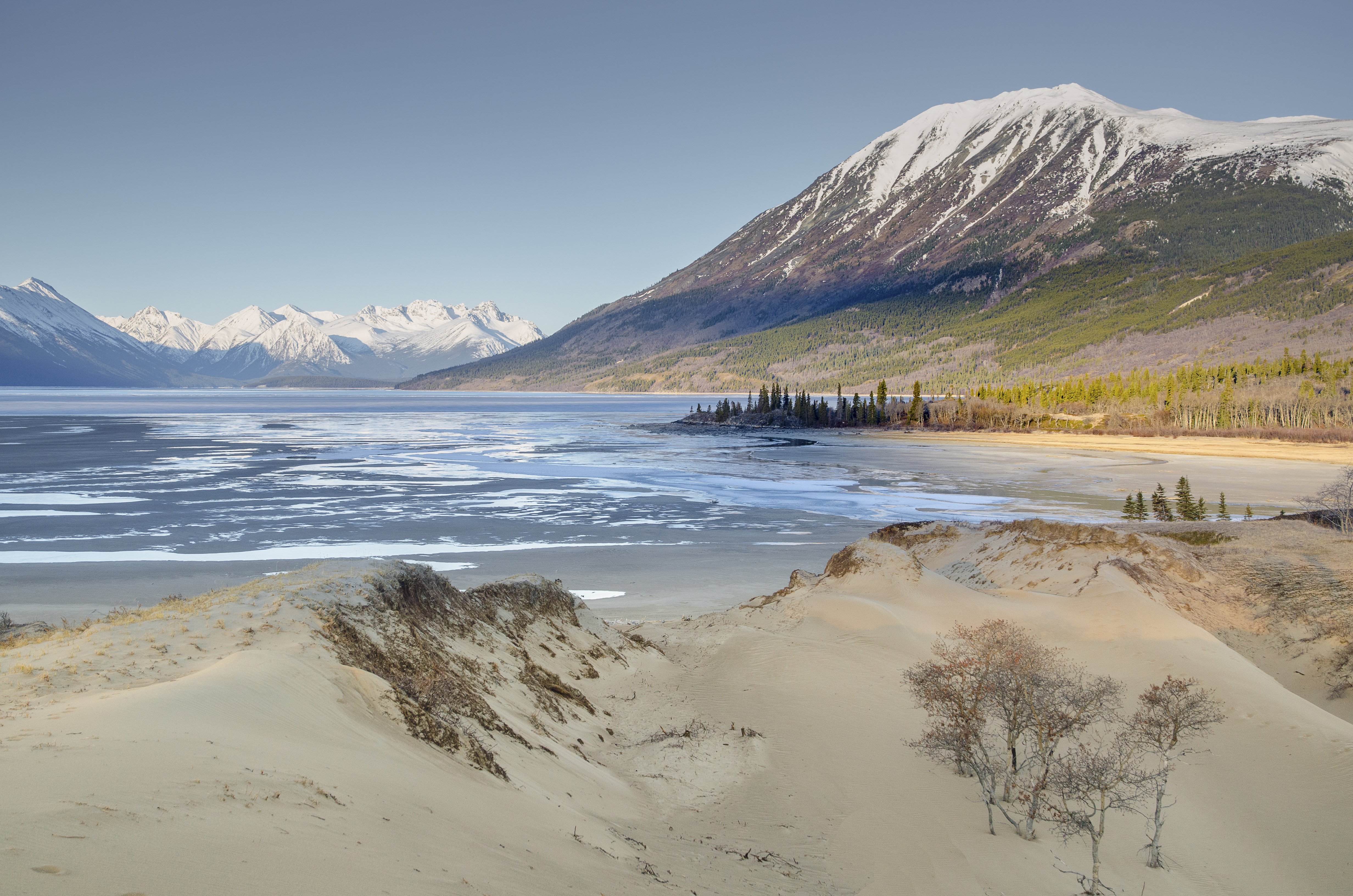 Bennett Lake from Yukon, Canada